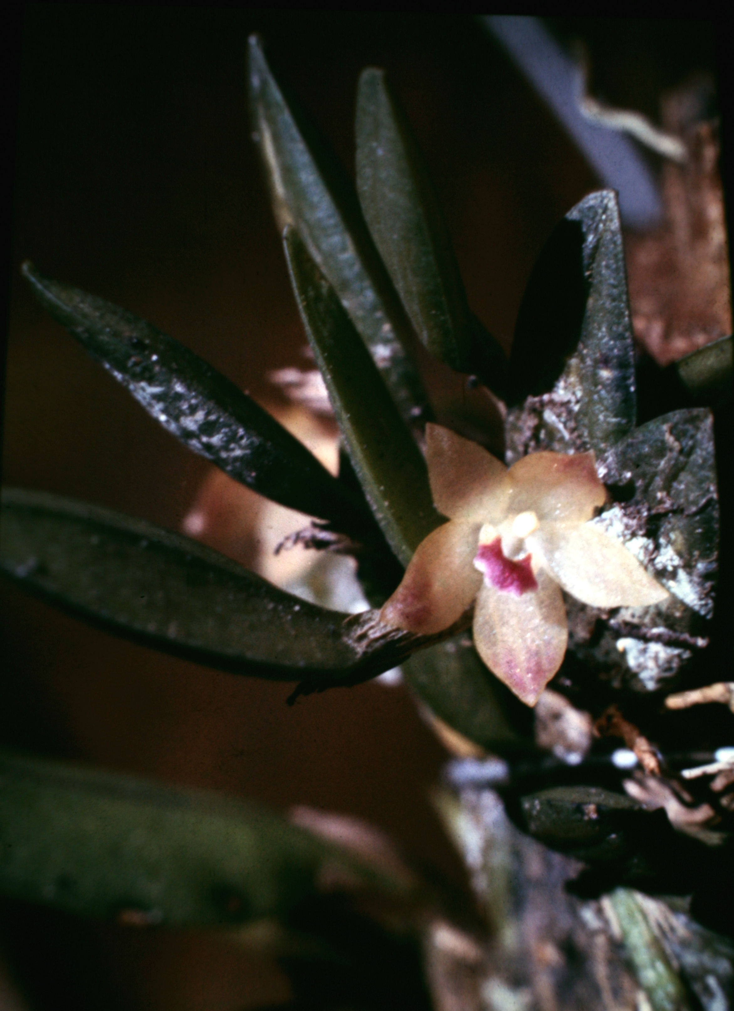 Octomeria minor. Suriname.